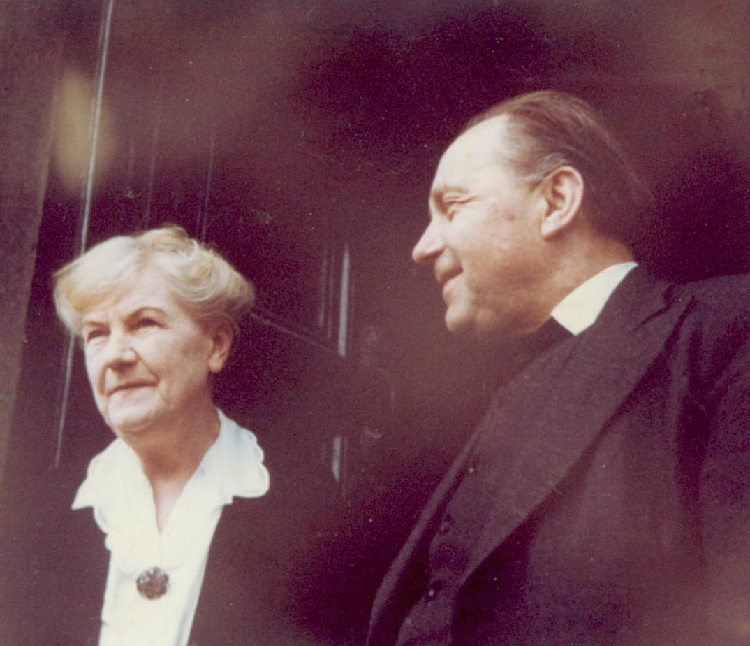 Aloys and Tilly Fleischmann - he born in Dachau, Bavaria 1880, church musician and composer; she born in Cork of German parents in 1882, pianist and author of "Tradition and Craft in Piano-Playing" (2014)